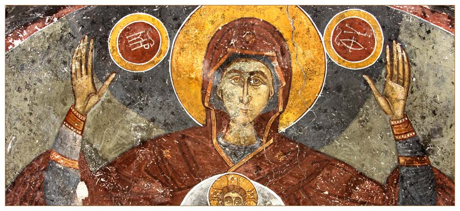 Fresco from St. Demetrious Church in Gradešnica, Macedonia